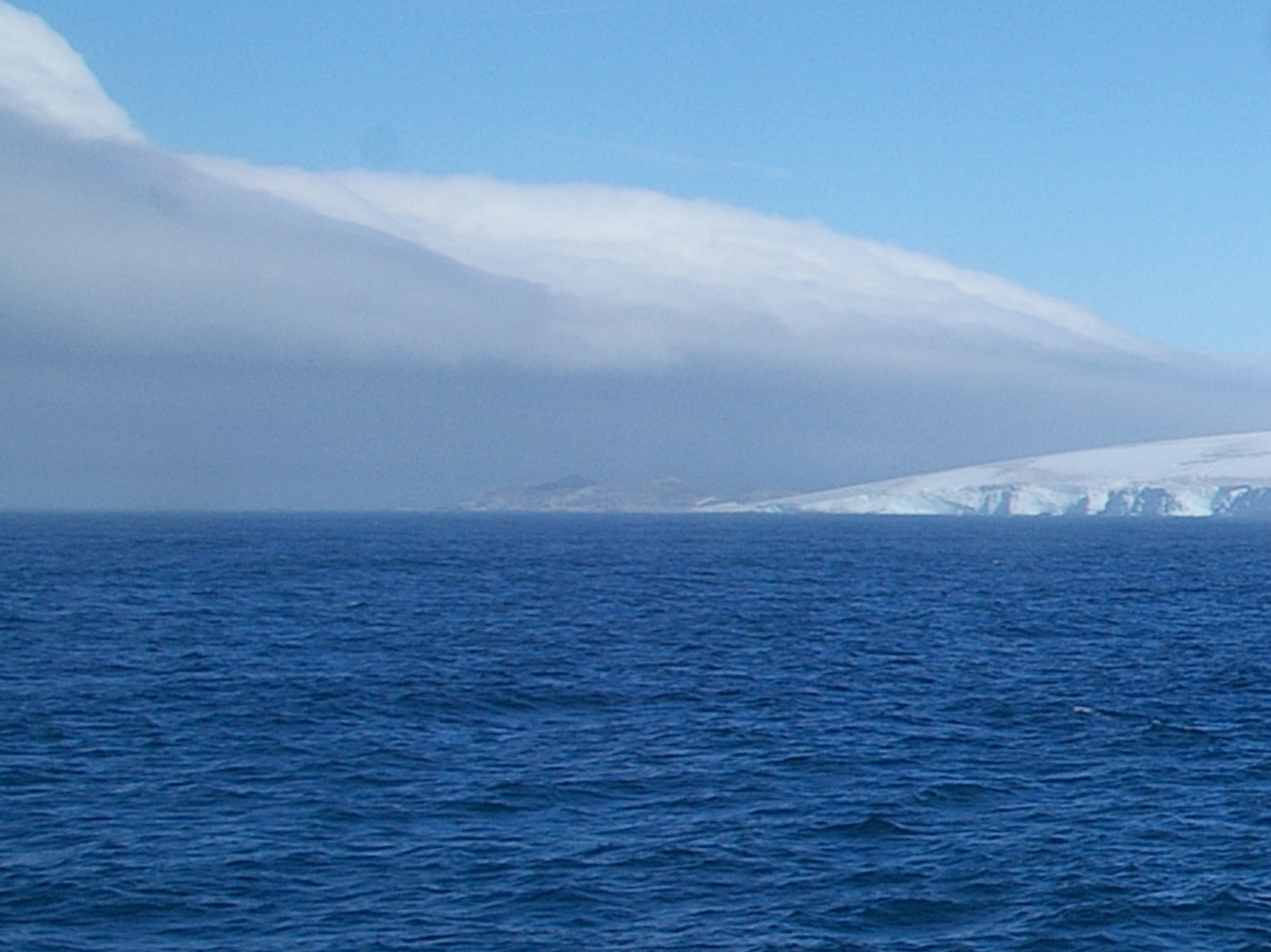 Kermen Peninsula on Robert Island, Antarctica seen from Bransfield Strait